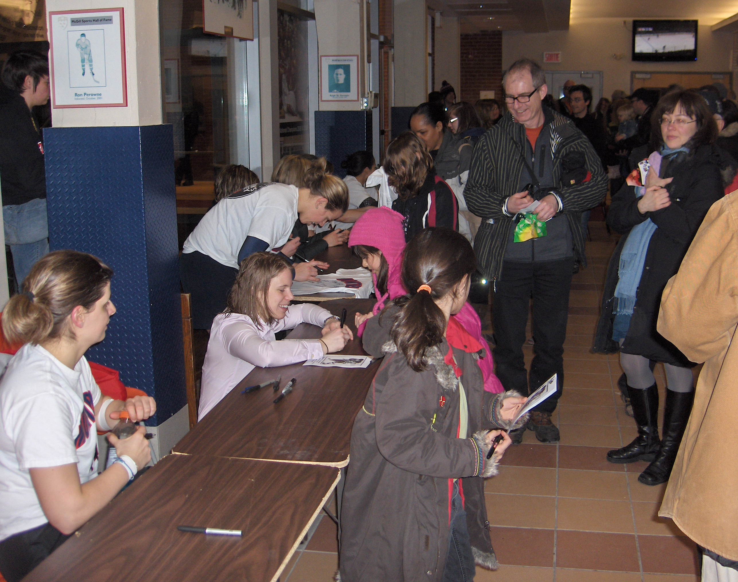 Montreal Stars are celebrating Fan Appreciation Night! After playoff Montreal-Brampton in Canadian Women Hockey League. On March 12 2011 at McConnell Arena (McGill University), Montreal, Canada.